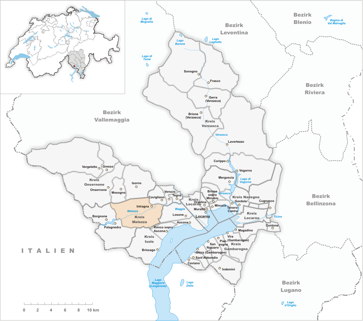 Municipality Intragna